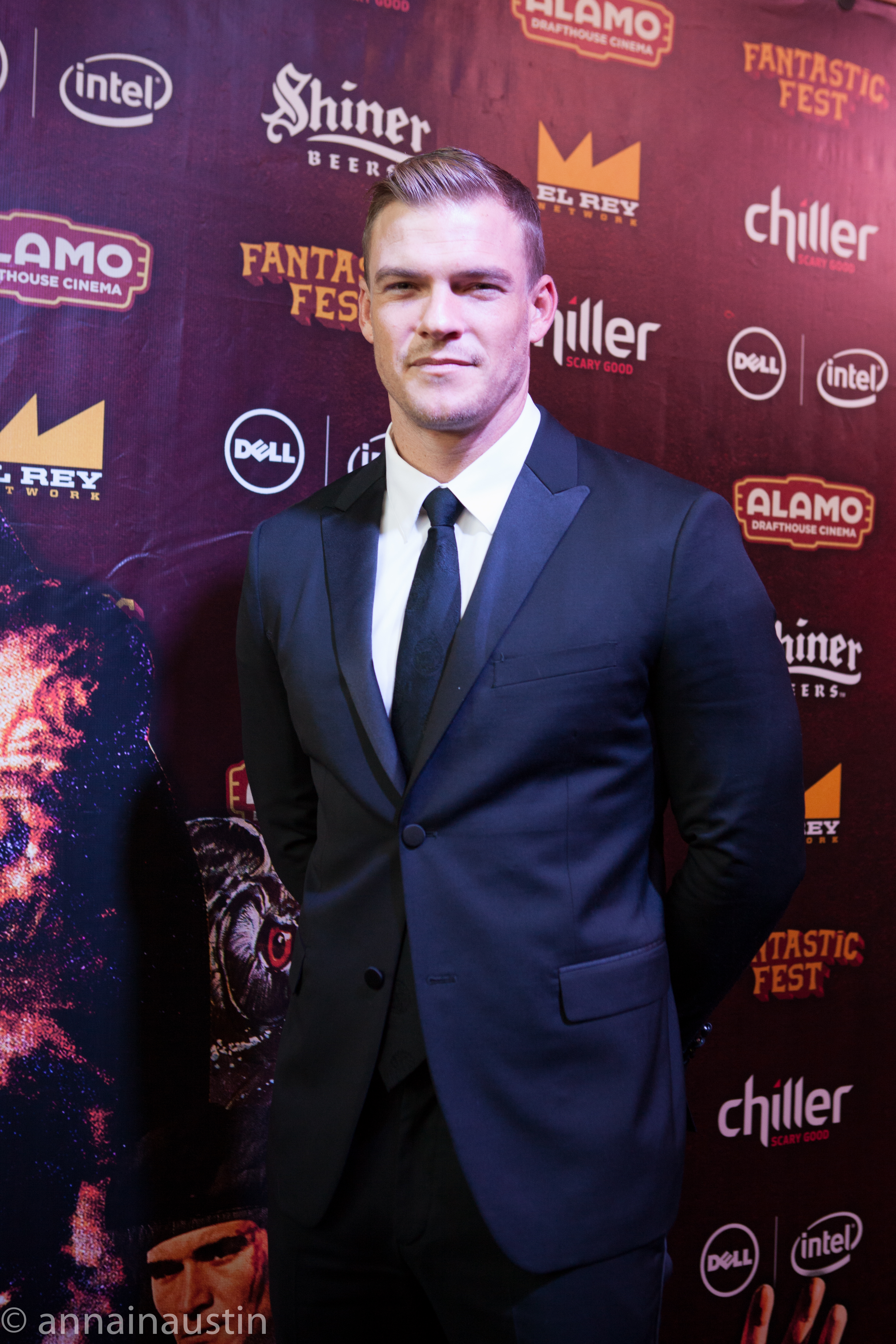 Alan Ritchson on the red carpet at the Lazer Team premiere at Fantastic Fest 2015.